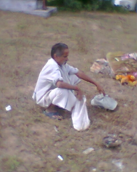 This photo was taken on November 25, 2011 using a Nokia C1-01.